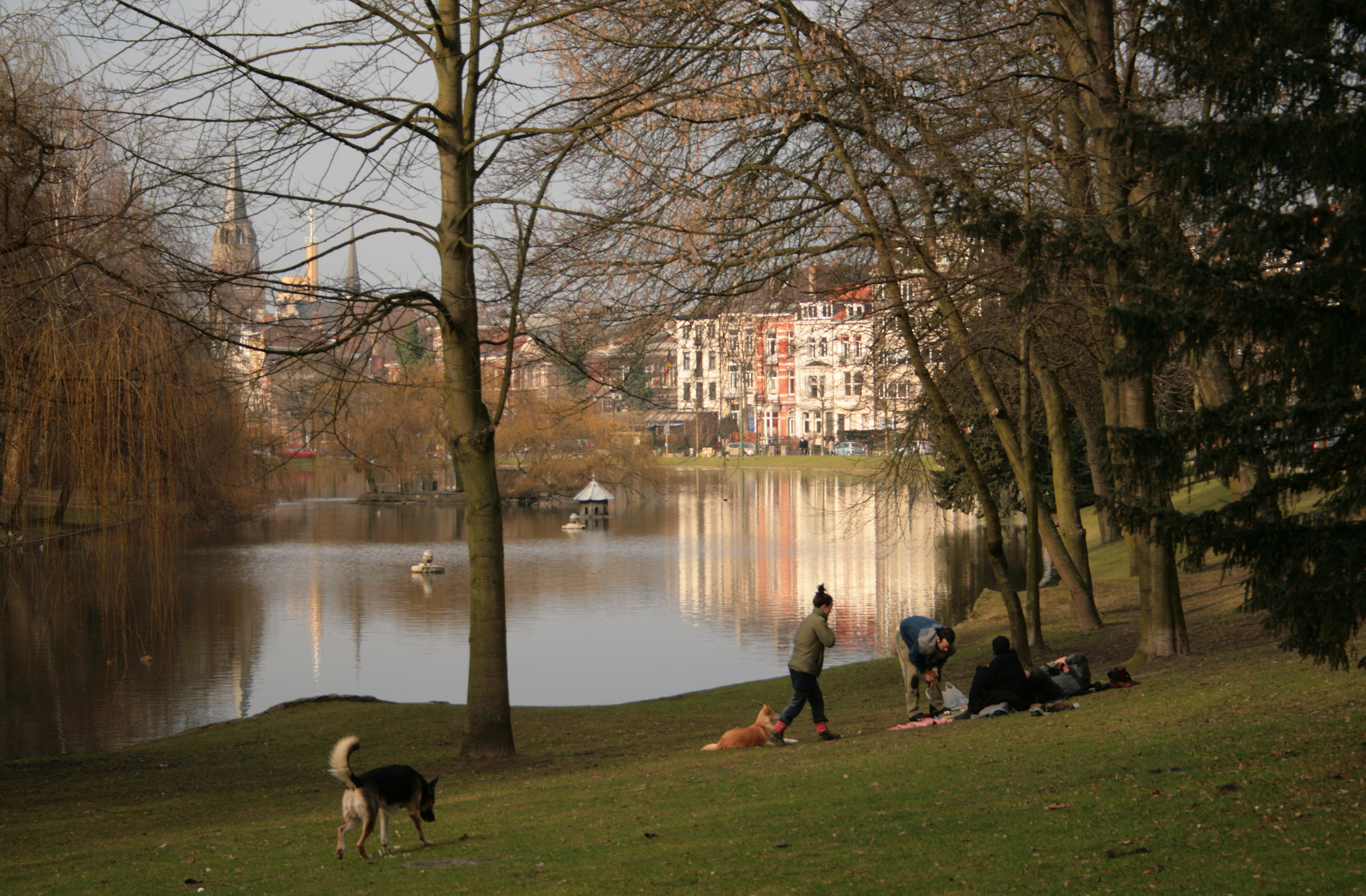 Ixelles (Belgium), the ponds.